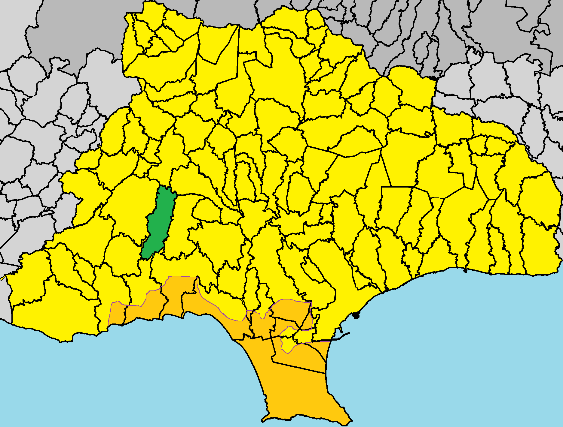 Agios Amvrosios, Limassol in Limassol District.